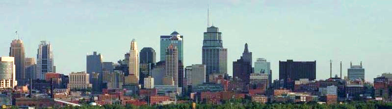 Enorton08 took this picture personally from an observatory point on the way to downtown Kansas City. Image:Kcskylinebridge.jpg by Enorton08, 11/26/2006 19:13 (UTC) It`s Tech N9nes home.(Rapper)